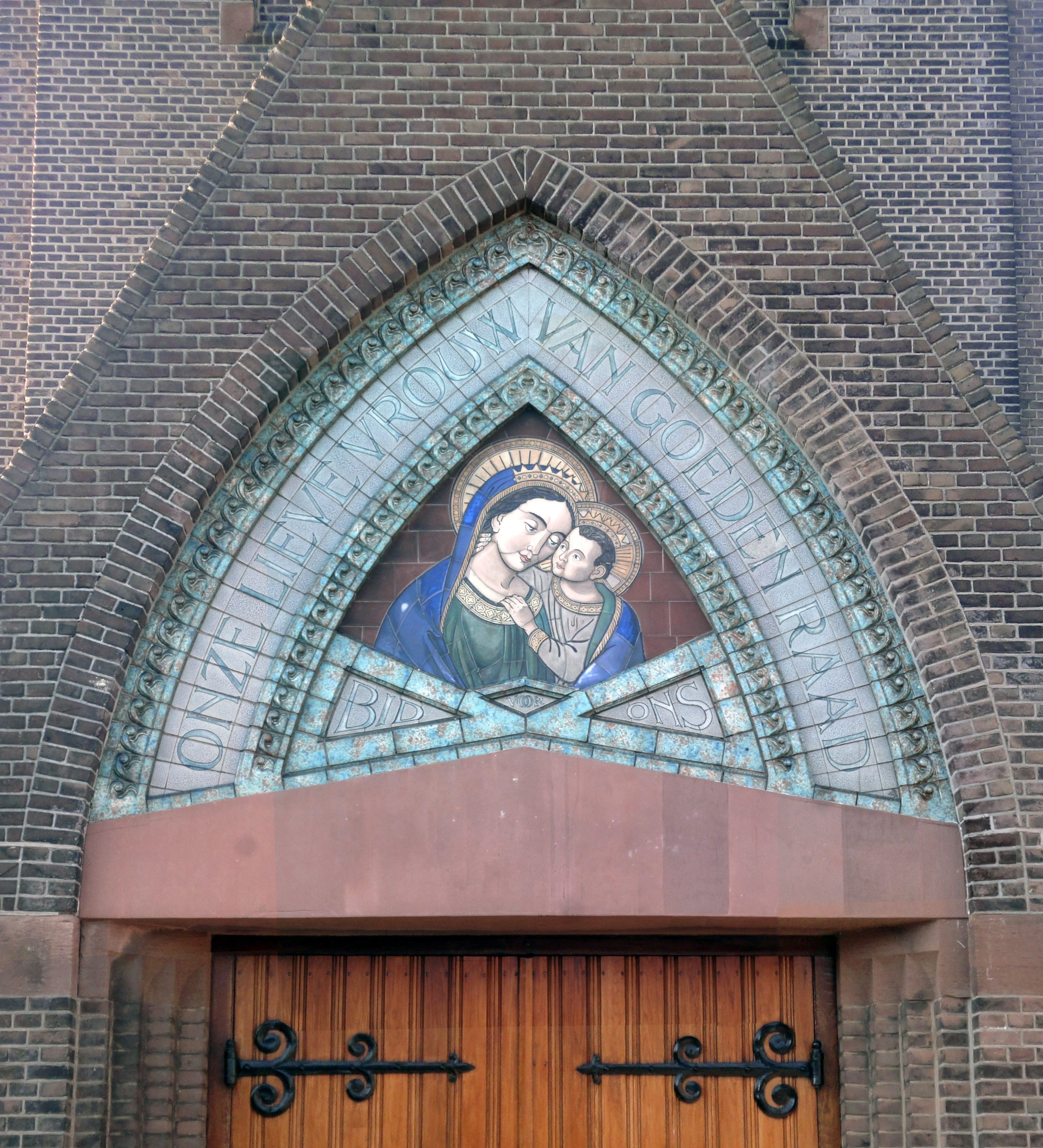 De Porceleyne Fles at Onze-Lieve-Vrouw van Goeden Raadkerk